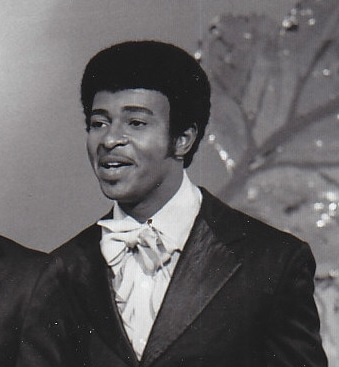 Dennis Edwards performs with The Temptations on The Ed Sullivan Show